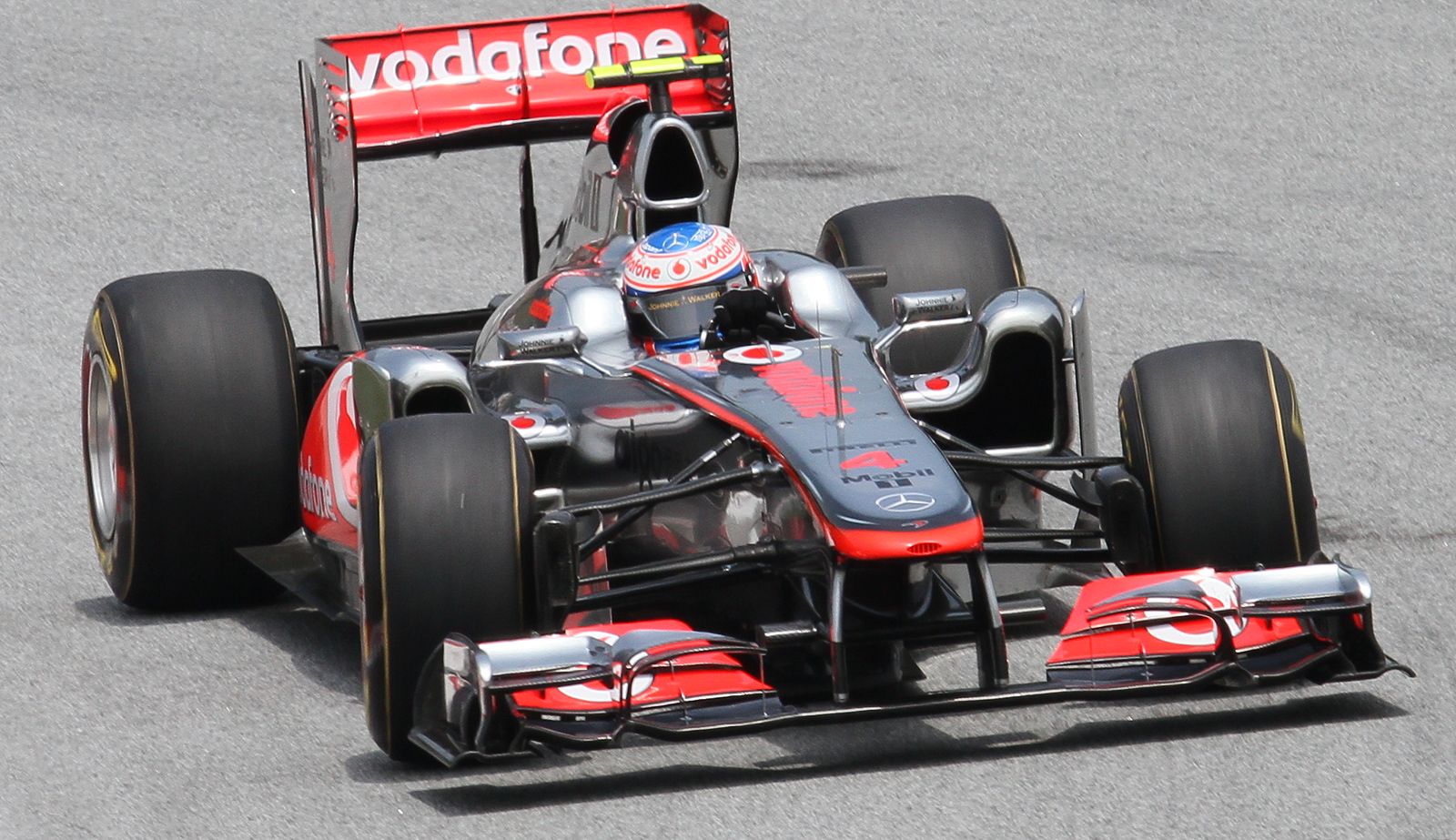 Formula One 2011 Rd.2 Malaysian GP: Jenson Button (McLaren) during the third practice session on Saturday.